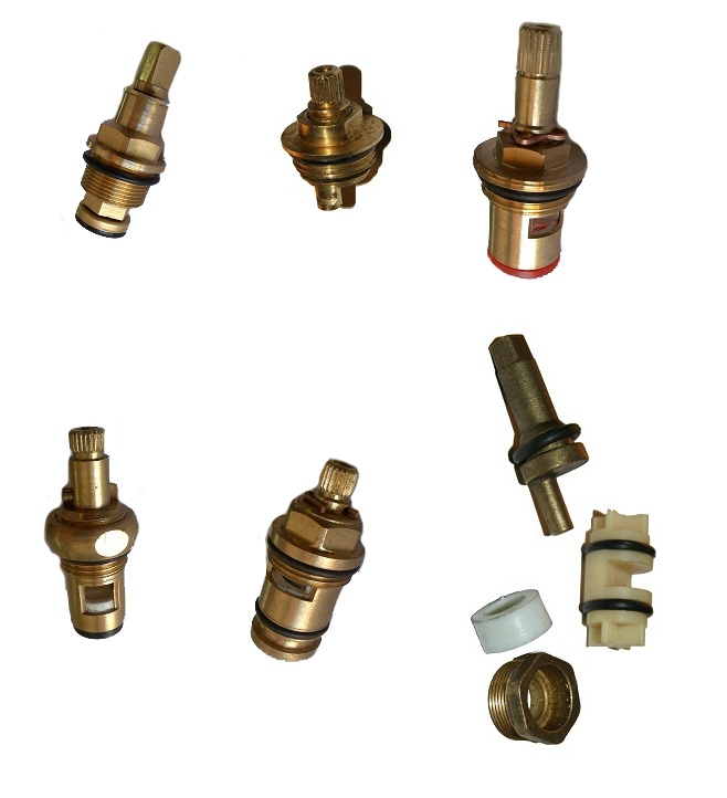 Cranbucs